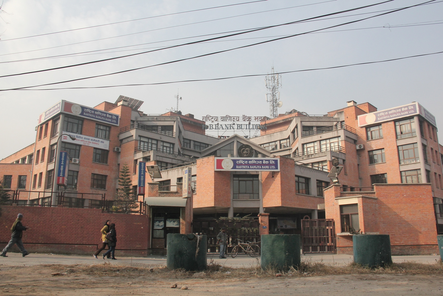 Central office building of Rastriya Banijya Bank, in Kathmandu Nepal